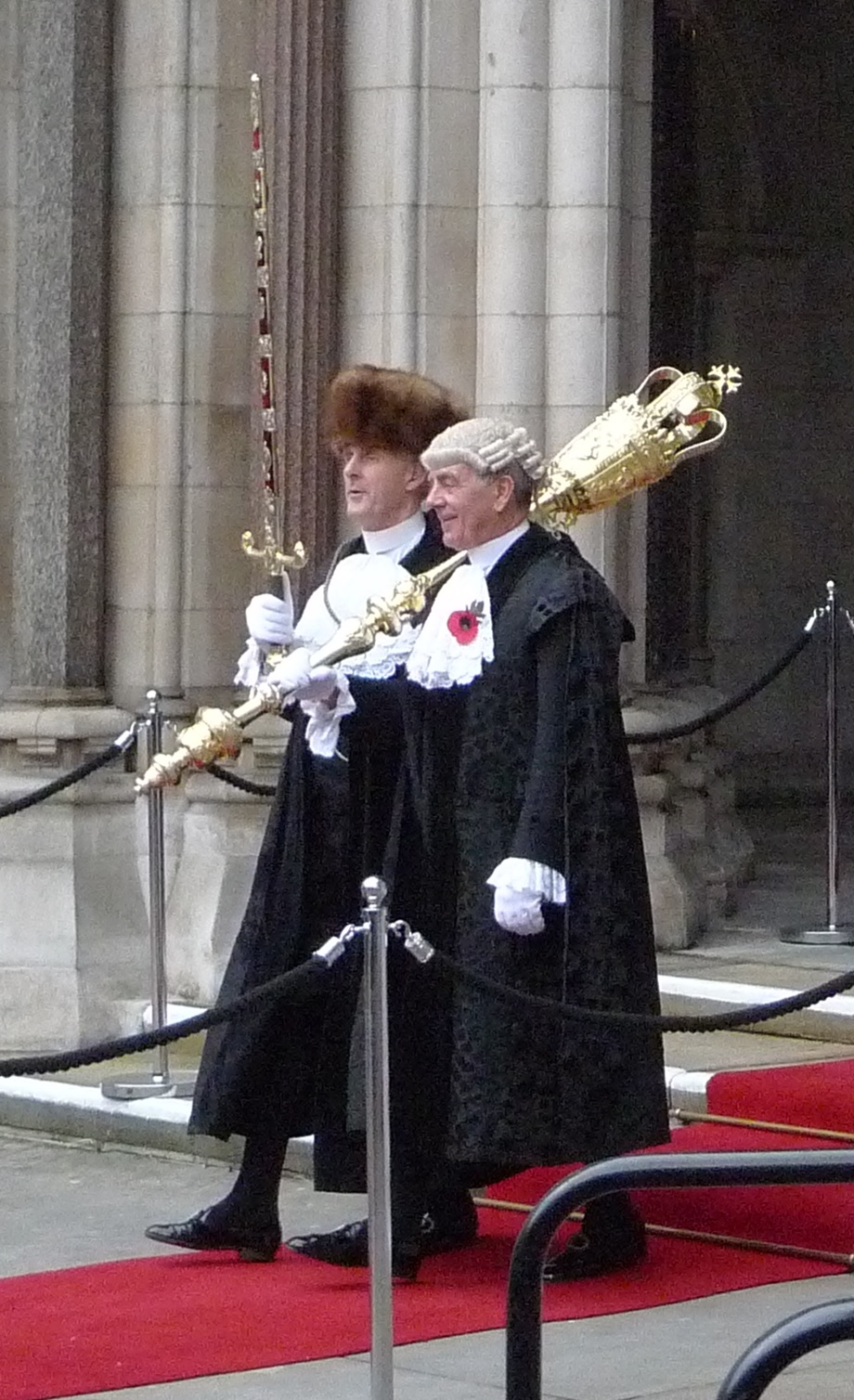 The Sword and Mace of the City of London, being carried out of the Royal Courts of Justice, at the end of half-time during the Lord Mayor's Show, November 2011